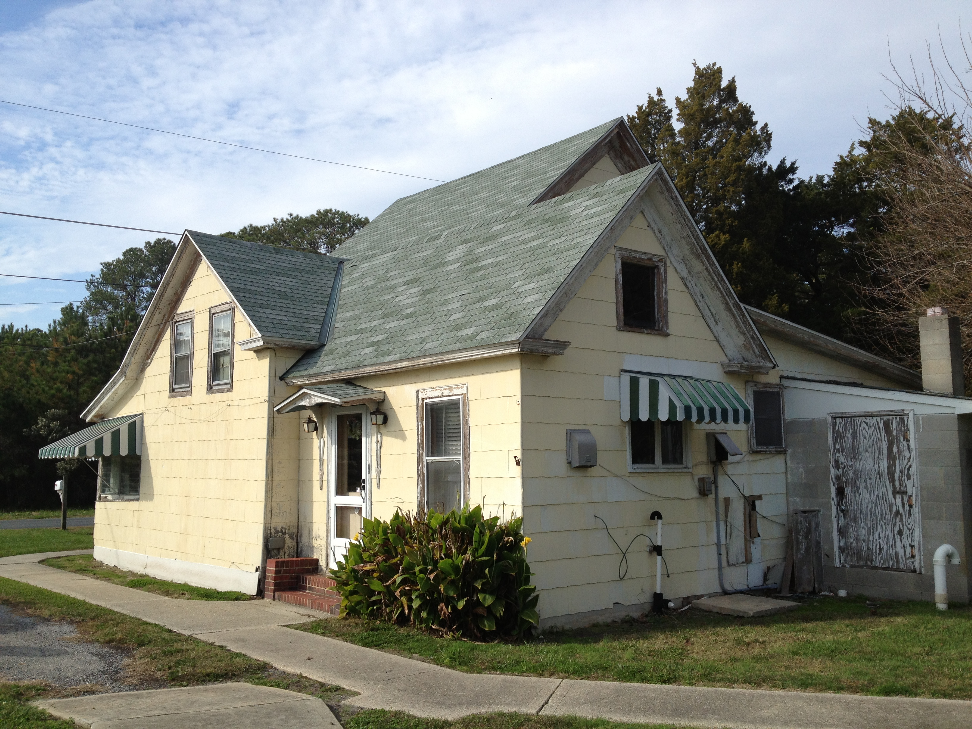 An image of the home of the Ward Brothers' House. The brothers, Lem and Steve, were famous for their hand-carved duck decoys.